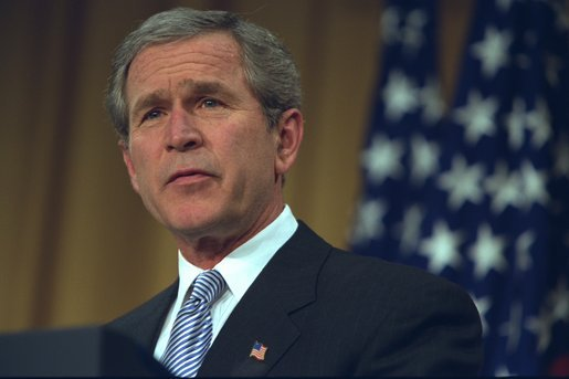 President George W. Bush speaks at the American Enterprise Institute's annual dinner in Washington, D.C., Wednesday, Feb. 26, 2003. White House photo by Paul Morse